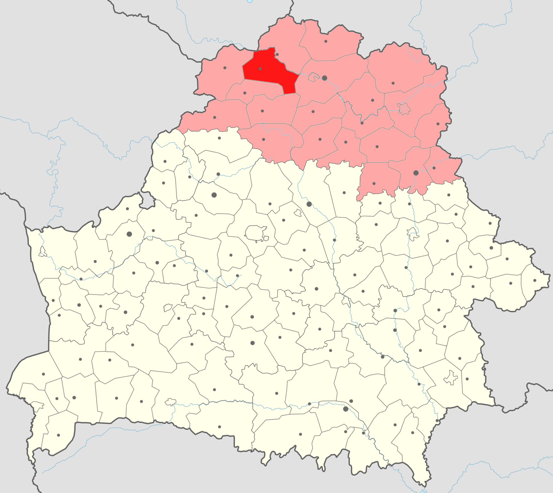 Map of Miorski raion (in red) with Viciebskaja voblast' (in light red) on the map of Belarus.